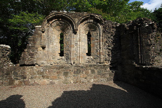 Dunstaffnage Chapel, Argyll, Scotland. This pair of windows is the chapel's most distinctive surviving architectural feature.